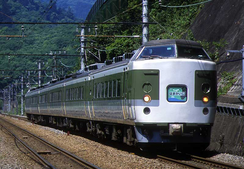 A JR East 183/189 series EMU on a Hamakaiji limited express service